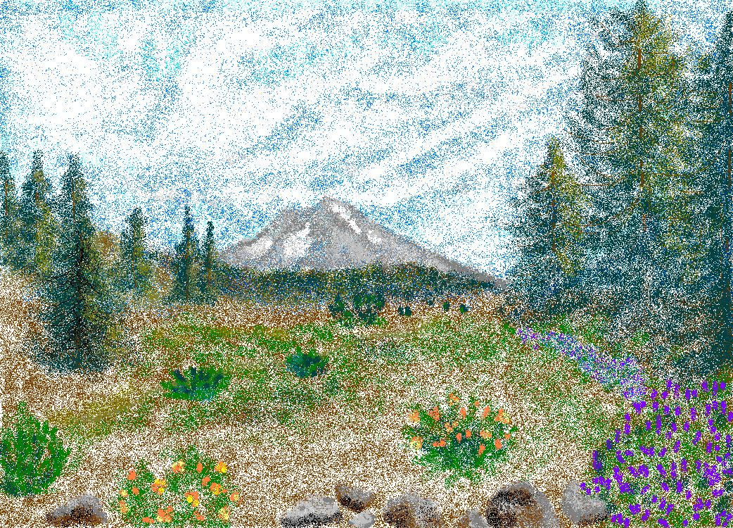 A Paint artwork.